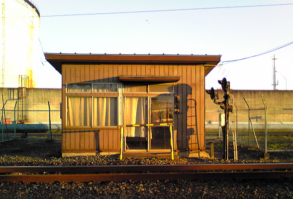 Sendai Kitako Station of Sendai Rinkai railway.